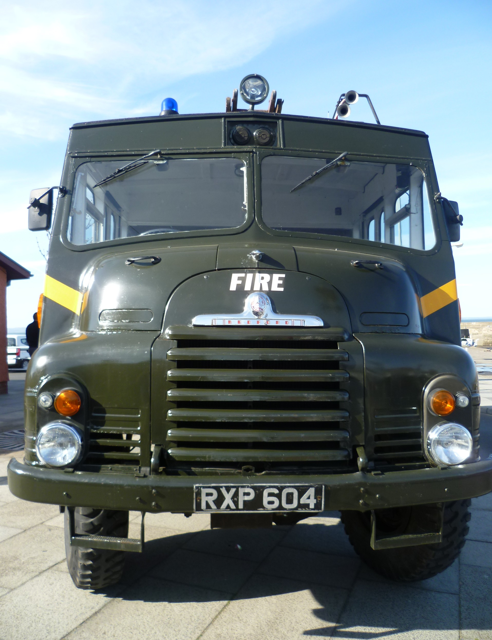 Bedford Green Goddess fire engine, built in 1955 and now maintained by the International Fire & Rescue Association in Dunfermline, Scotland.